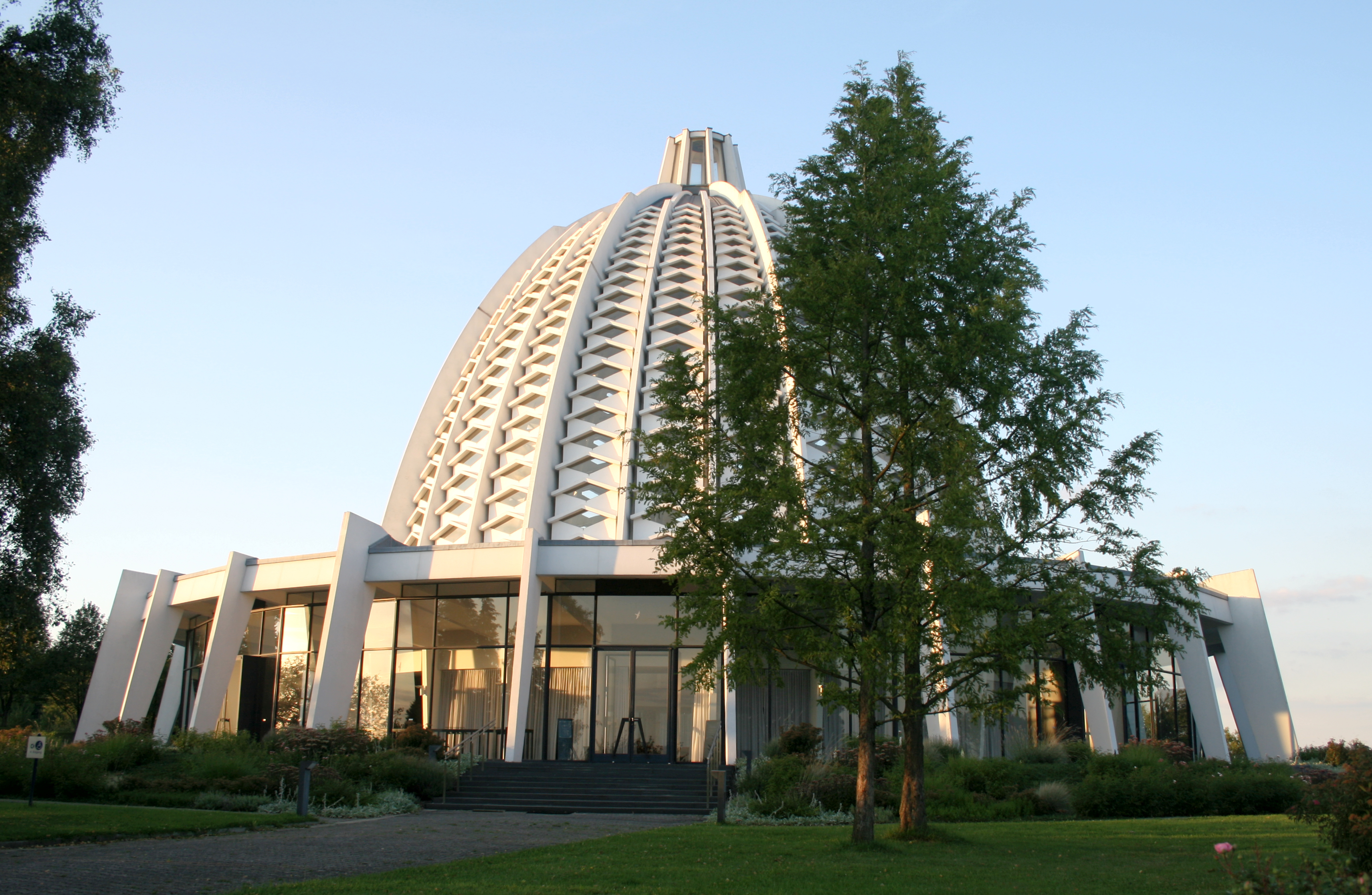 House of Worship Germany 2007